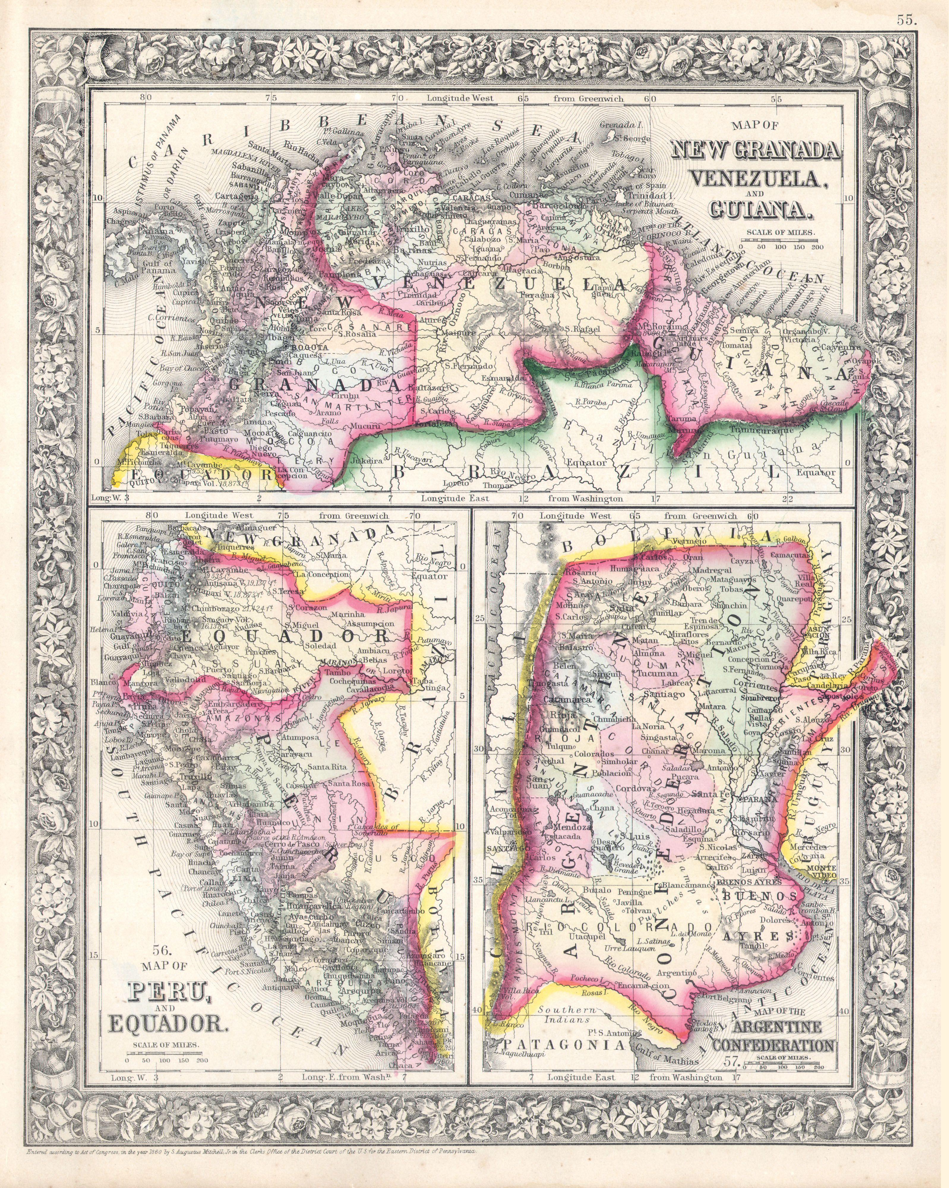 A beautiful example of S. A. Mitchell Jr.’s 1864 three map sheet depicting parts of South America. The first map shows New Granada (Columbia), Venezuela and Guiana. The second map, in the lower left quadrant, depicts Peru and Equador (Ecuador). The third map, in the lower right quadrant, features the Argentine Confederation. One of the most attractive American atlas maps of this region to appear in the mid 19th century. Features the floral border typical of Mitchell maps from the 1860-65 period. Prepared by S. A. Mitchell for inclusion as plate no. 55 in the 1864 issue of Mitchell’s New General Atlas . Dated and copyrighted, “Entered according to Act of Congress in the Year 1860 by S. Augustus Mitchell in the Clerk’s Office of the District Court of the U.S. for the Eastern District of Pennsylvania.